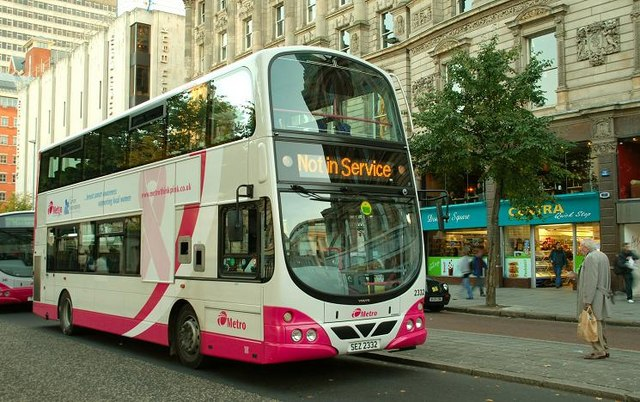 Metro bus 2332 (reg. SEZ 2332) (not in service), Belfast.